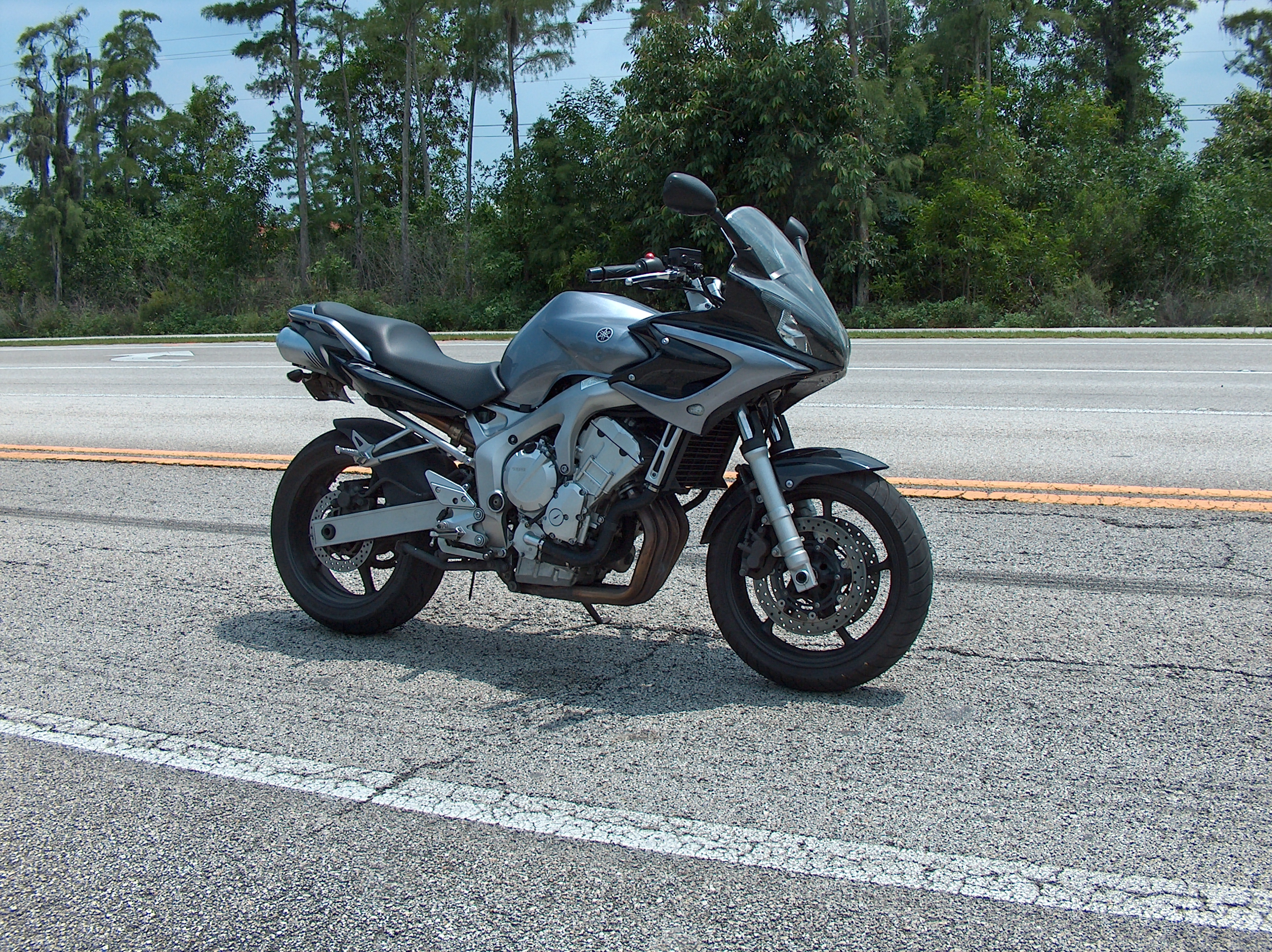 2005 silver Yamaha FZ6 in Florida